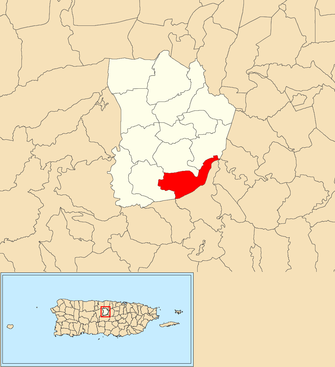 Perchas, Morovis, Puerto Rico locator map